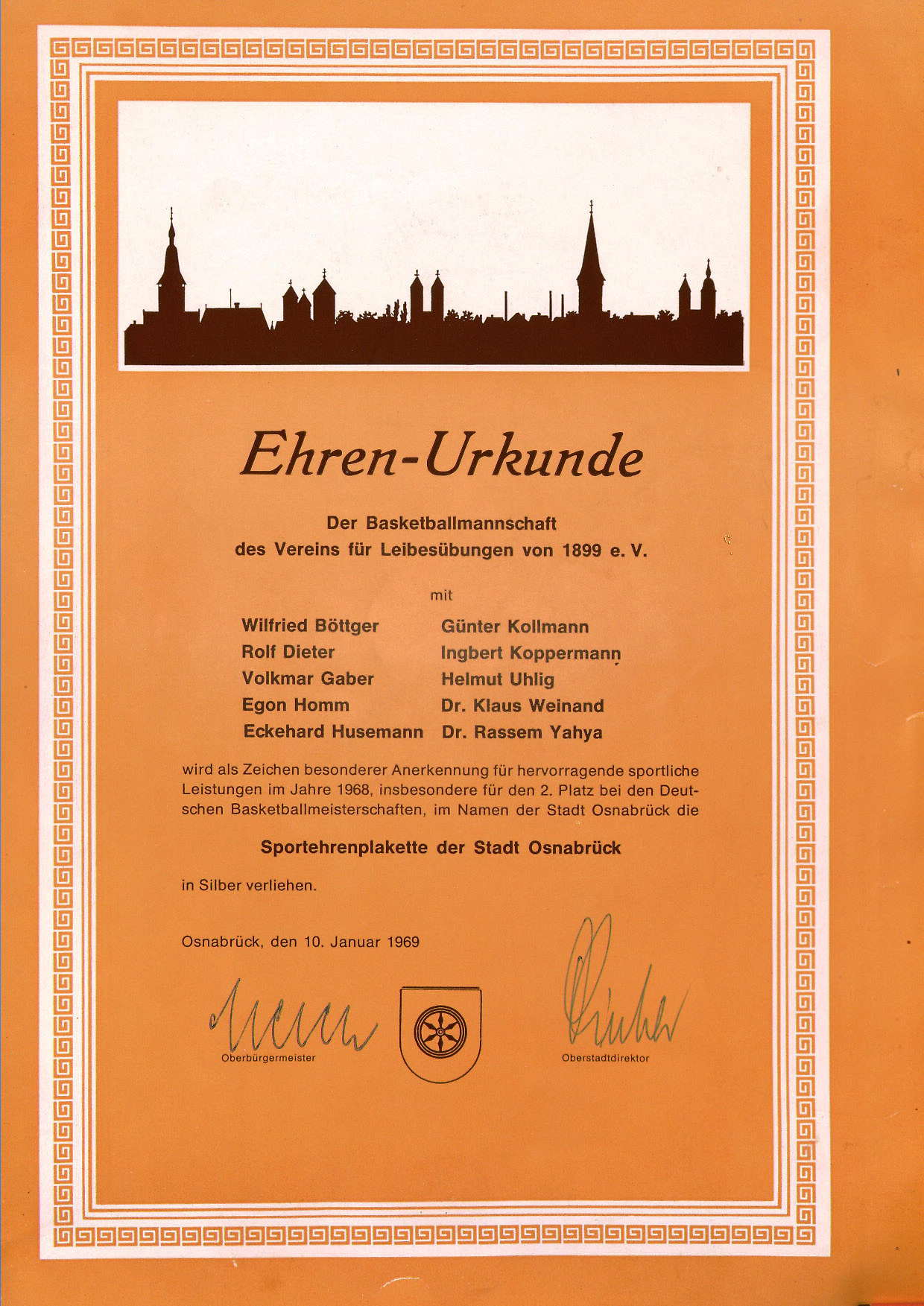 Certificate of honor for basketball player of VfL Osnabrück